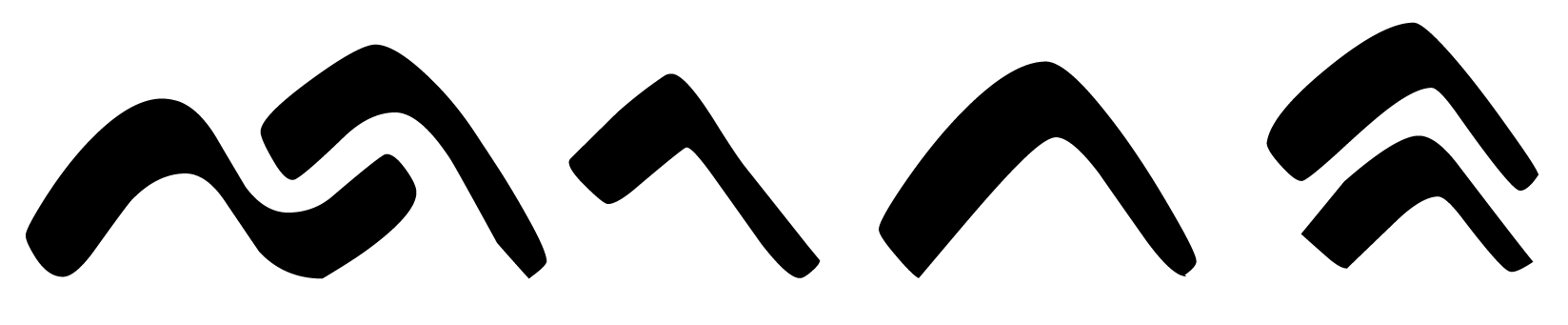 "lotara" in lontara script